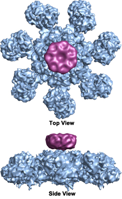 3D structure of the human apoptosome-CARD complex (Yuan et al. 2010, Structure of an apoptosome-procaspase-9 CARD complex)